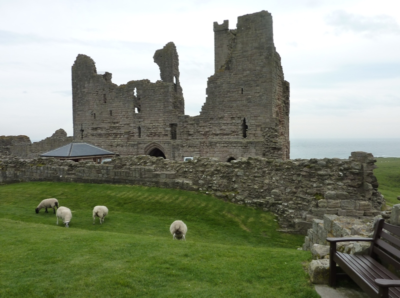 Dunstanburgh Castle, Northumberland, England. Gatehouse seen from the courtyard.